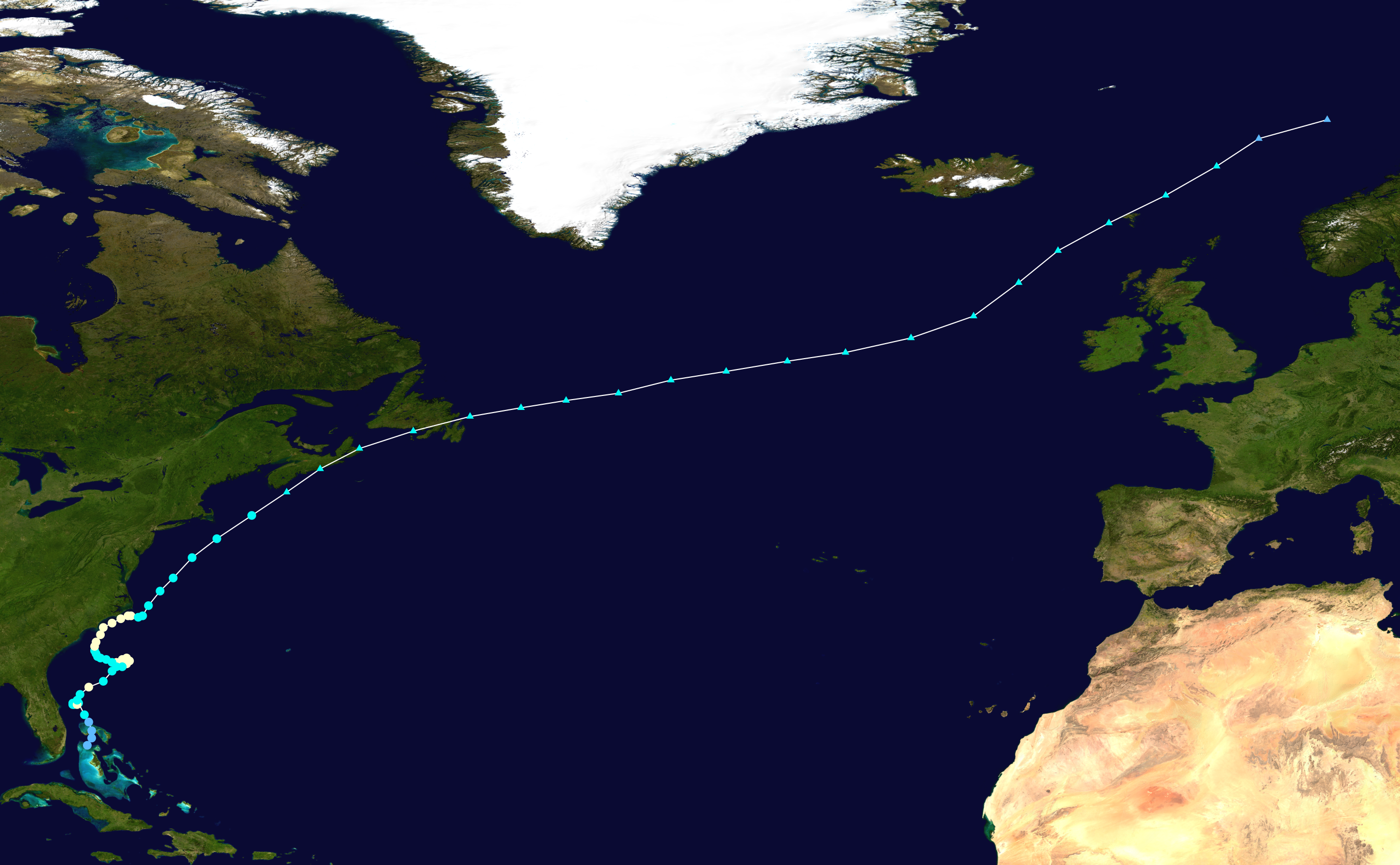 Track map of Hurricane Ophelia of the 2005 Atlantic hurricane season. The points show the location of the storm at 6-hour intervals. The colour represents the storm's maximum sustained wind speeds as classified in the Saffir–Simpson scale (see below), and the shape of the data points represent the nature of the storm, according to the legend below. Saffir–Simpson scale Tropical depression≤38 mph≤62 km/h Category 3111–129 mph178–208 km/h Tropical storm39–73 mph63–118 km/h Category 4130–156 mph209–251 km/h Category 174–95 mph119–153 km/h Category 5≥157 mph≥252 km/h Category 296–110 mph154–177 km/h Unknown Storm type Tropical cyclone Subtropical cyclone Extratropical cyclone / Remnant low / Tropical disturbance / Monsoon depression